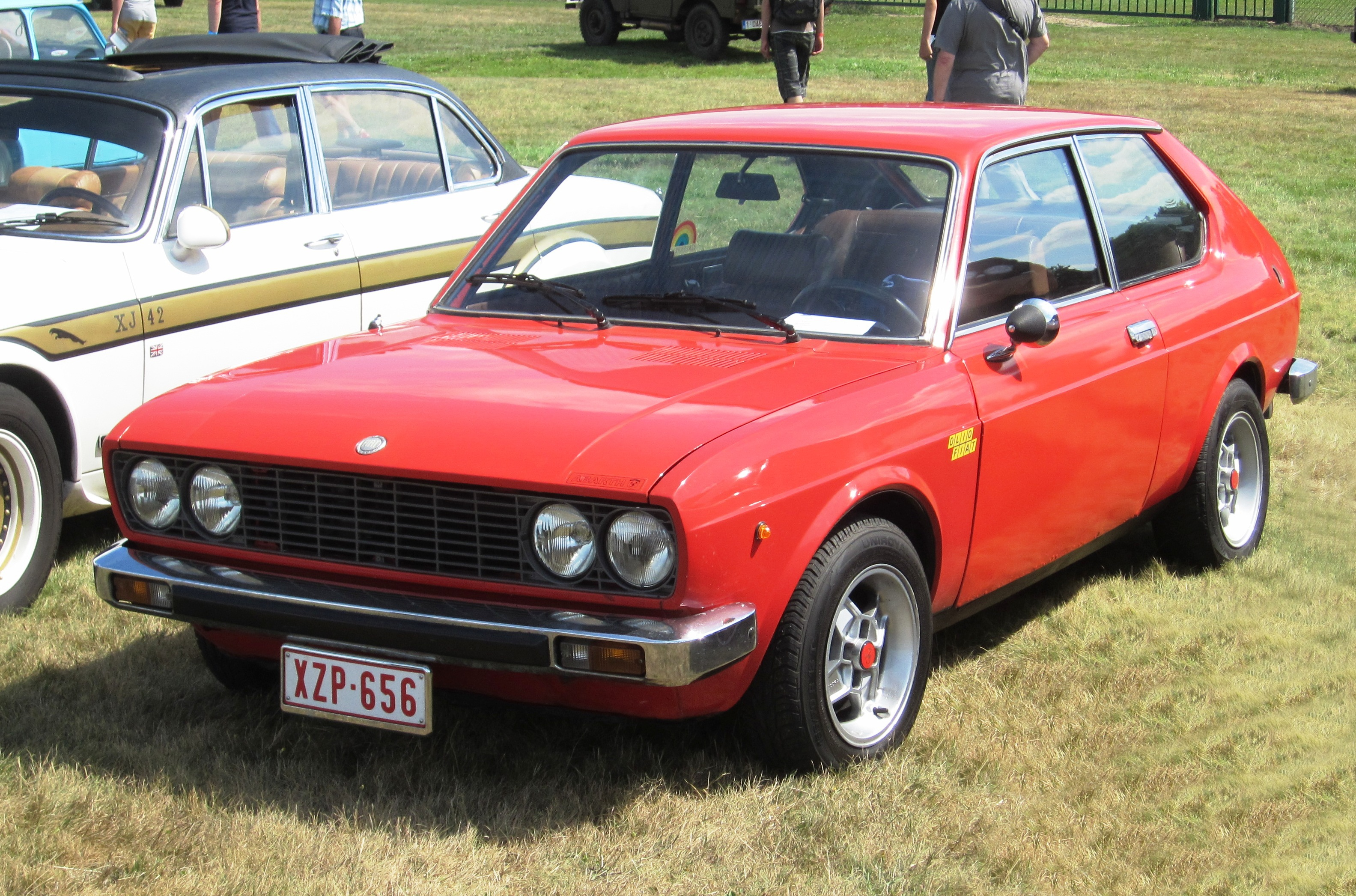 Fiat 128 3p The hatchback format 128 3P replaced the two door Fiat 128 coupé in 1975